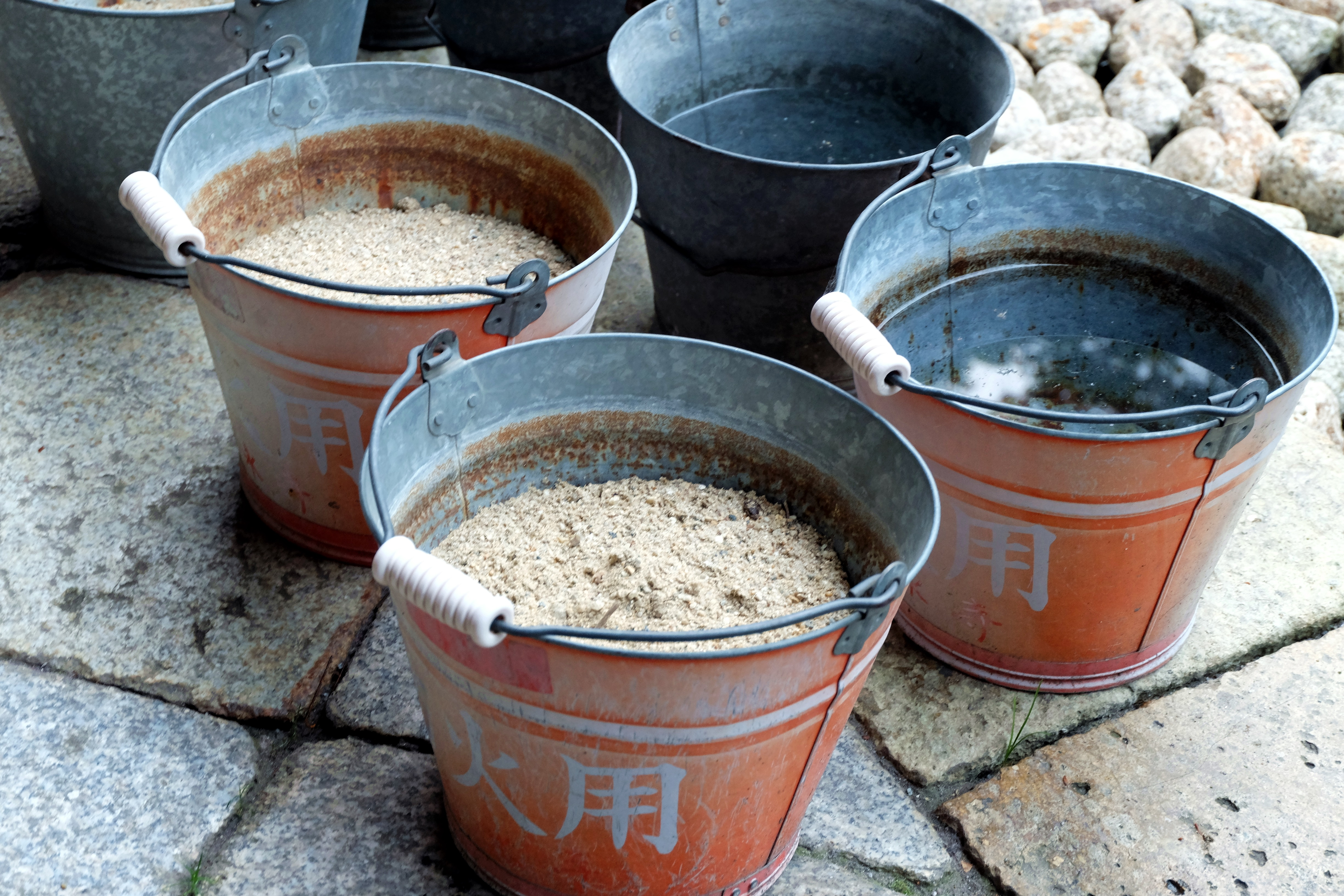 Yep, the old fashioned way. Buckets of dirt and water. Kyoto, Japan